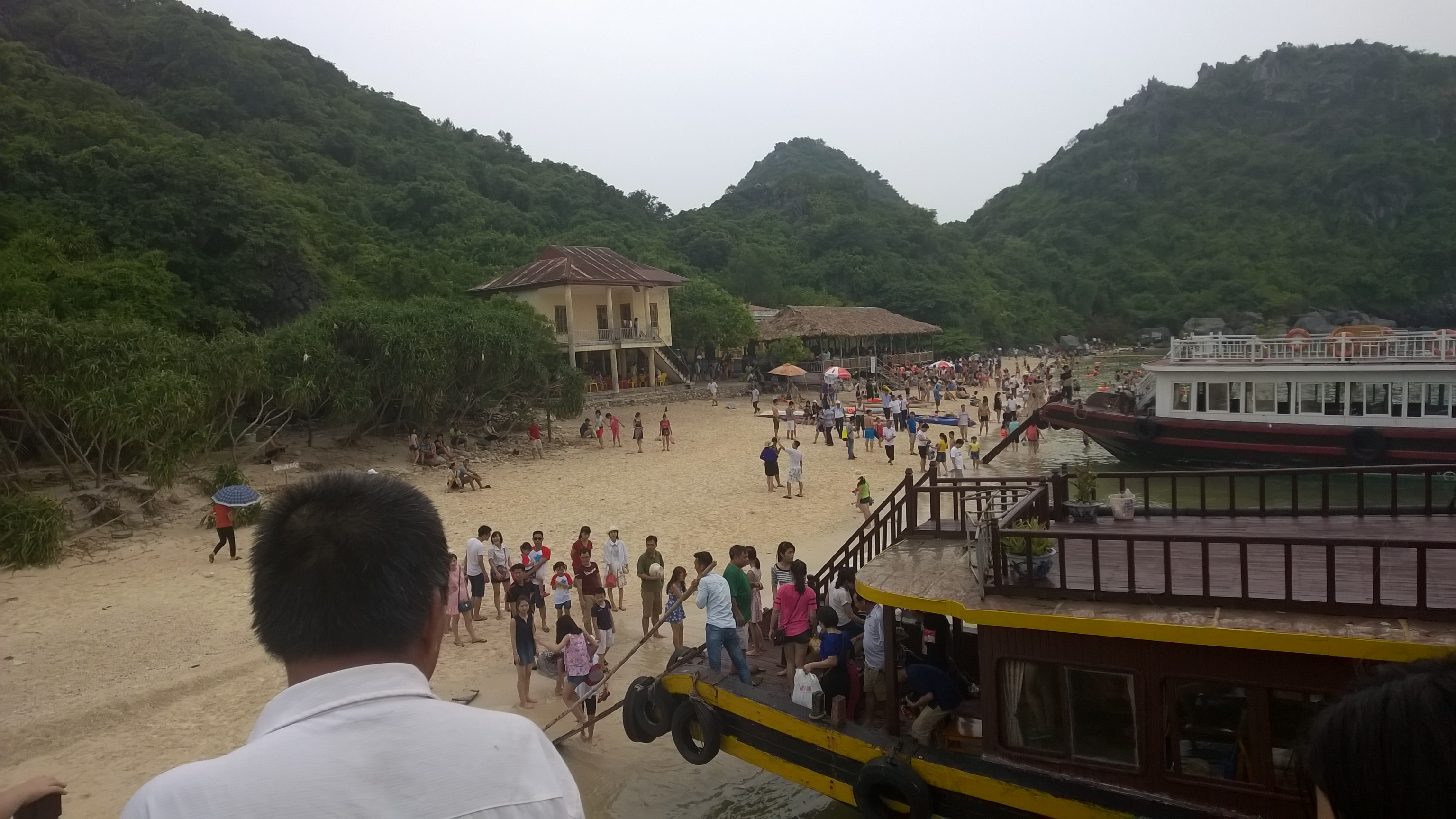 Boats docked in Cat Ba in 2015.